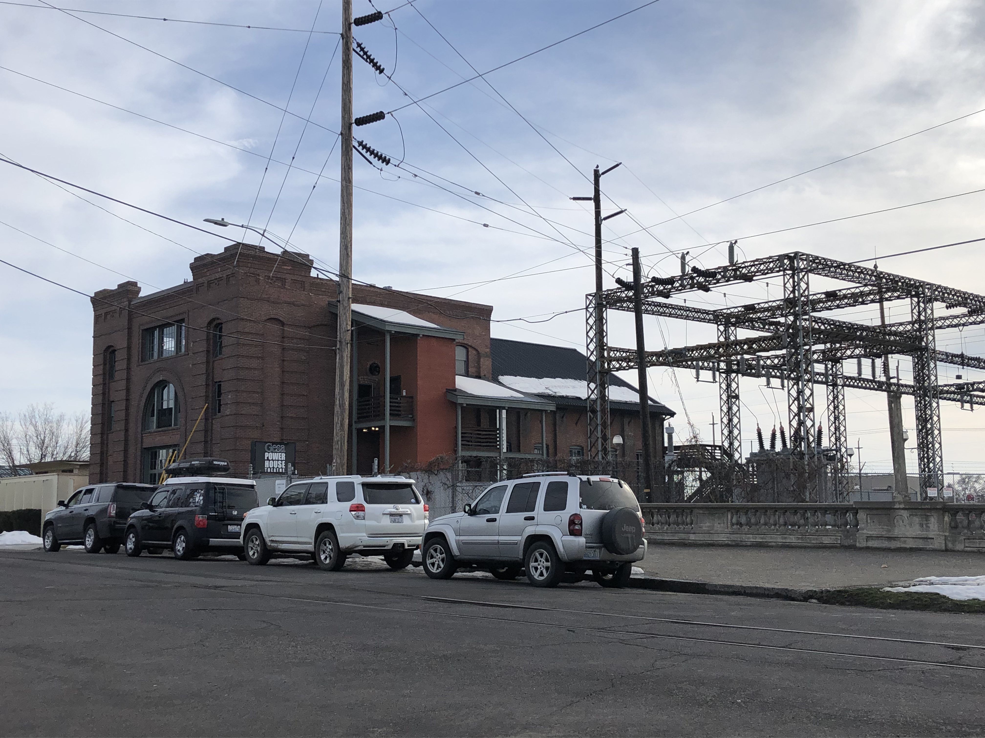 Street view of the Electric Light Works Building in Walla Walla